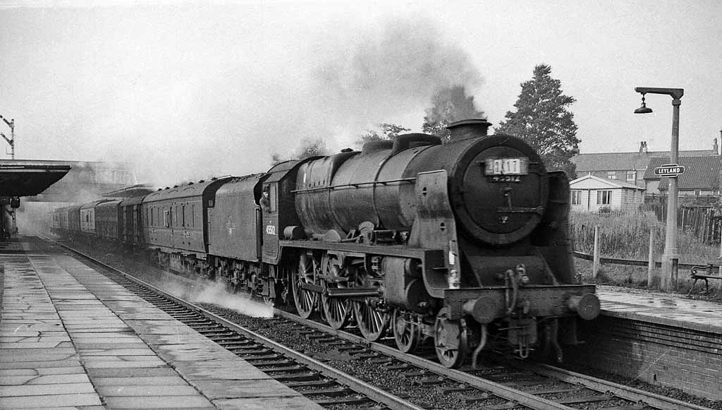 Up parcels train at Leyland. LMS Rebuilt 'Patriot' Class 6P 4-6-0 No. 45512 'Bunsen' dashes southwards through Leyland station (between Preston and Wigan) with a heavy parcels train - in between all the holiday expresses on a Summer Saturday. Compare SD5422 : Leyland Station, with train and SD5422 : Leyland Station, with train for more details.